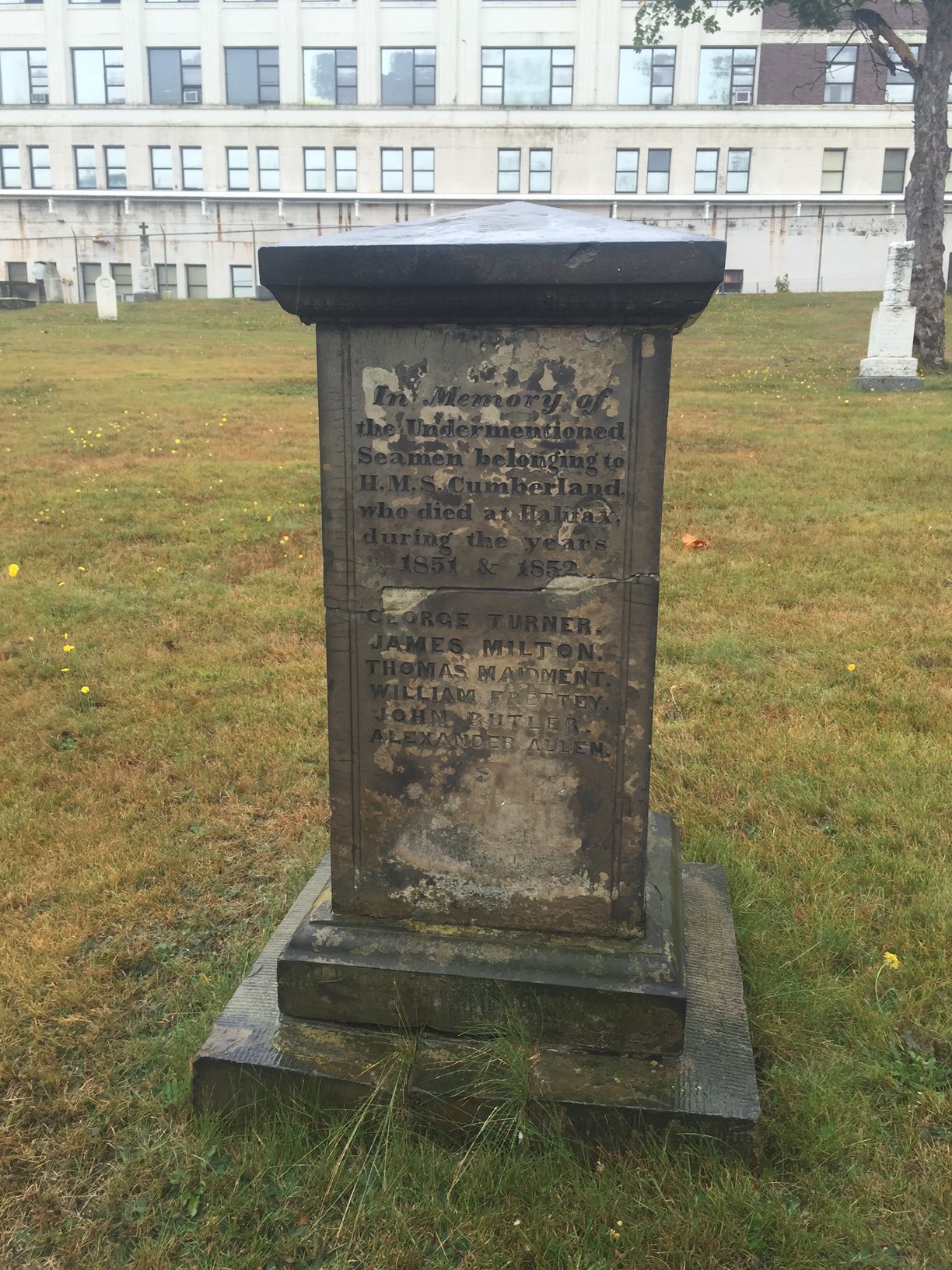 HMS Cumberland, Royal Naval Burying Ground, Halifax, Nova Scotia